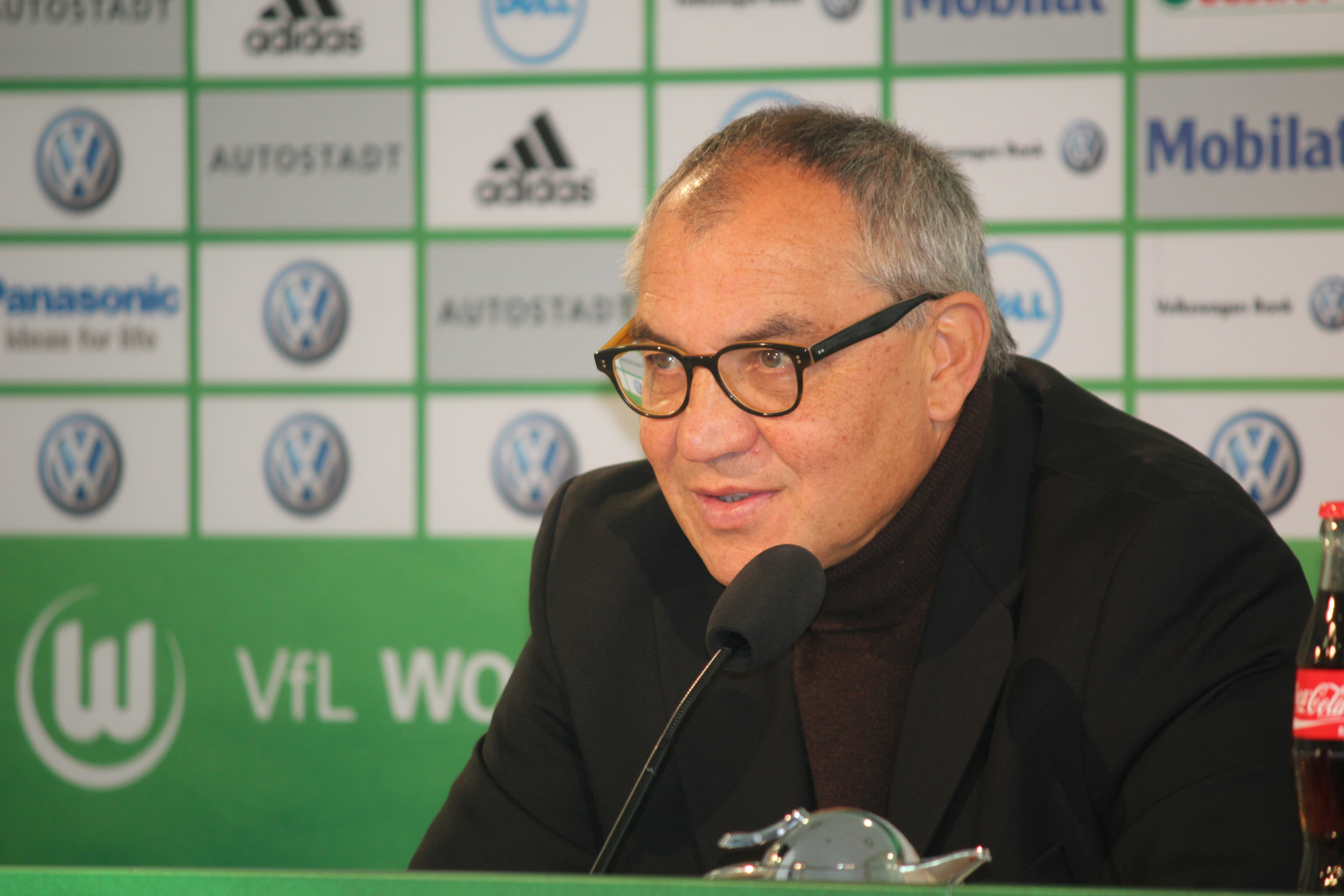 Felix Magath doing a press conference for the VfL Wolfsburg